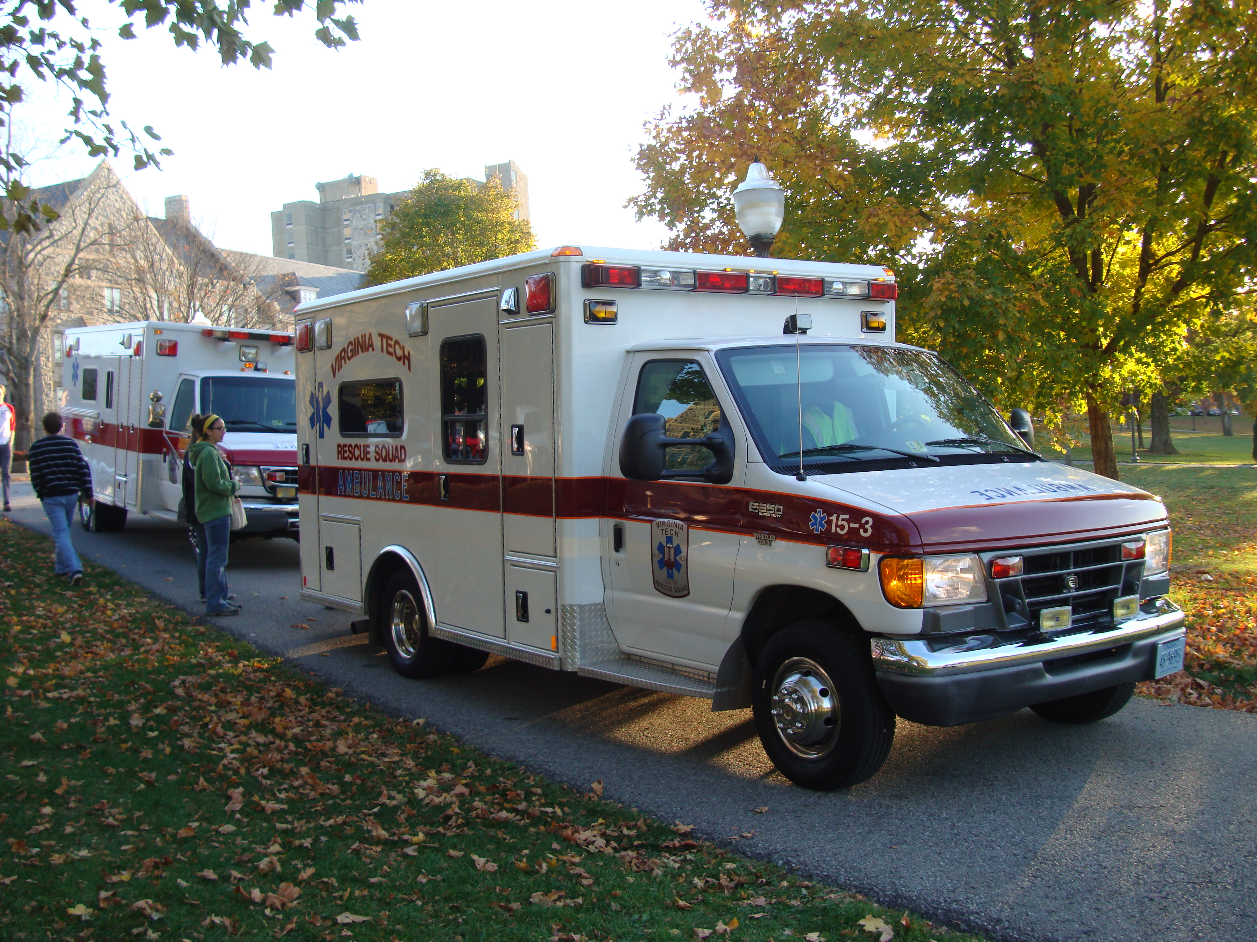 Once of the ambulances of the Virginia Tech Rescue Squad